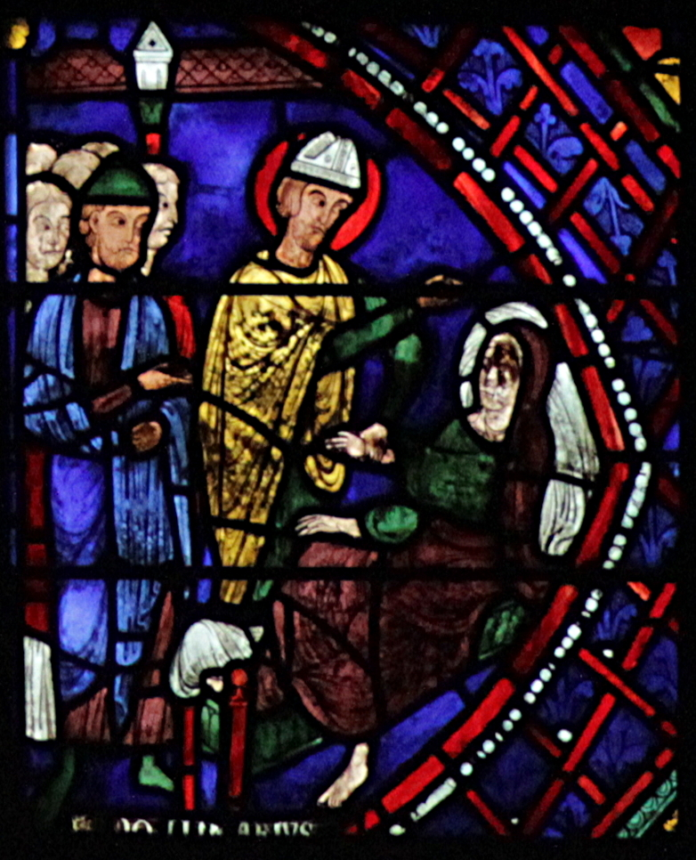 Fragment of File:Chartres 36 -Corrected.jpg - Life of St Apollinaris